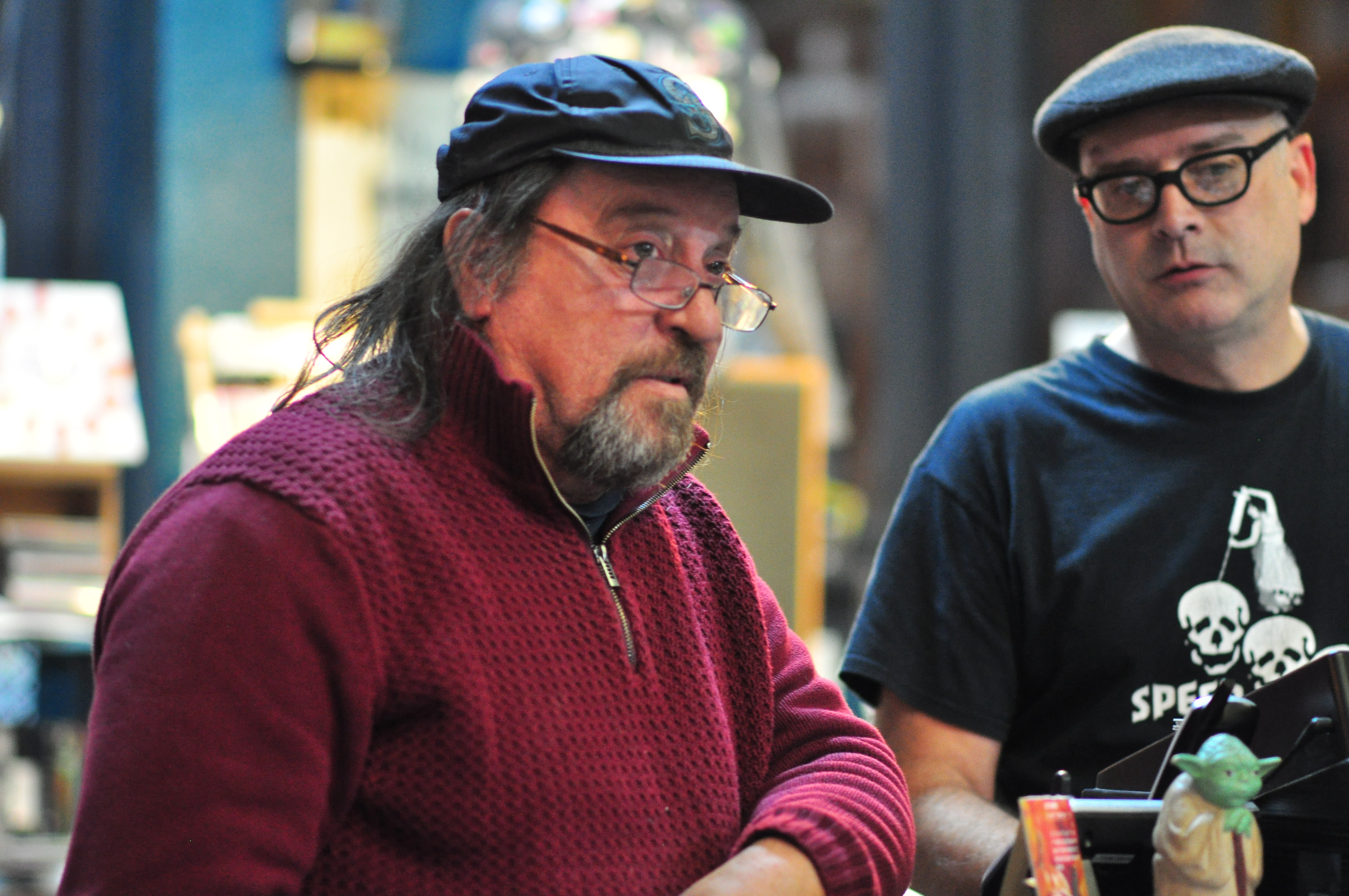 Larry Reid (left), manager and curator of the Fantagraphics Bookstore and Gallery with Martin Imbach, part owner of Georgetown Records (which shares the same storefront) at event for book "Rock is Not Dead", Fantagraphics book store in Georgetown, Seattle, Washington, October 22, 2016.